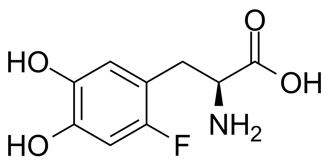 Chemical structure of fluorodopa